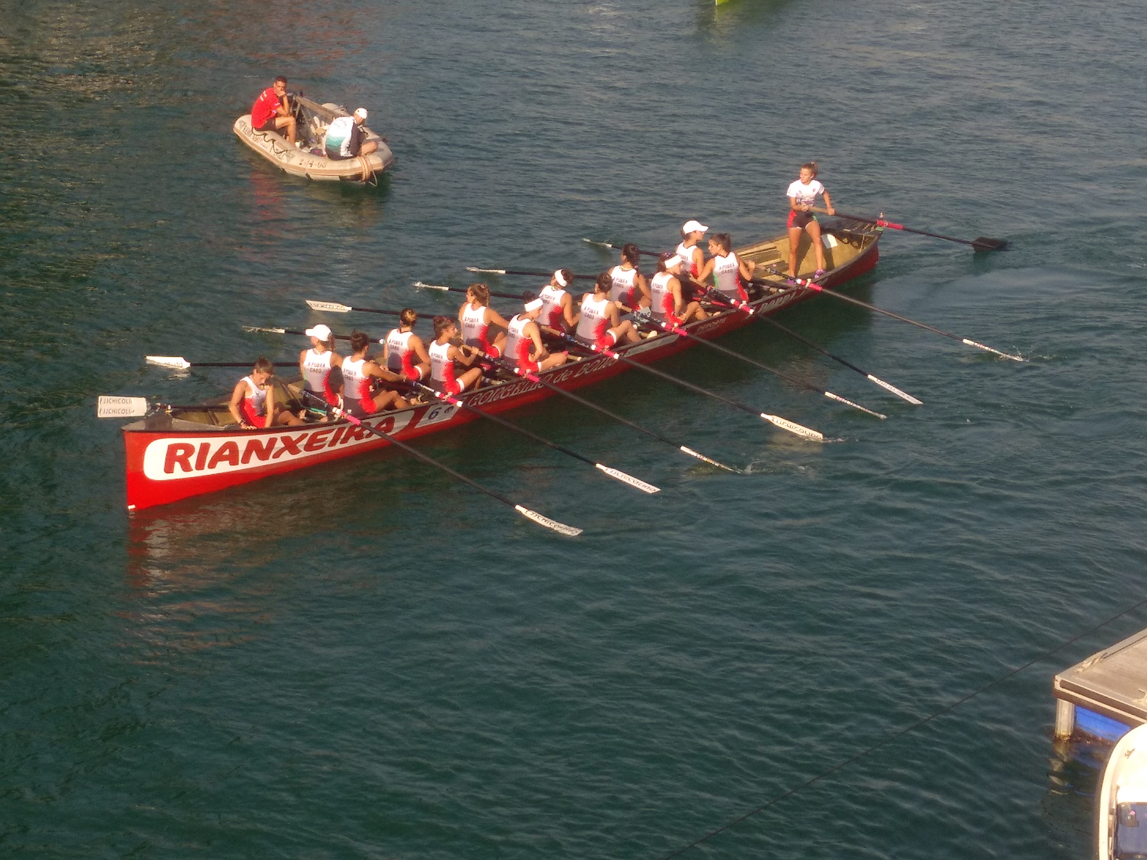 A Pobra-Cabo, women, Flag of La Concha, 2018